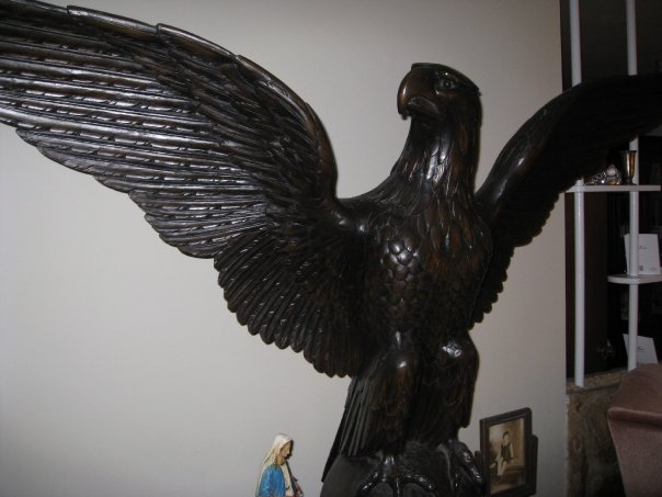 Carving of Eagle from Department Store